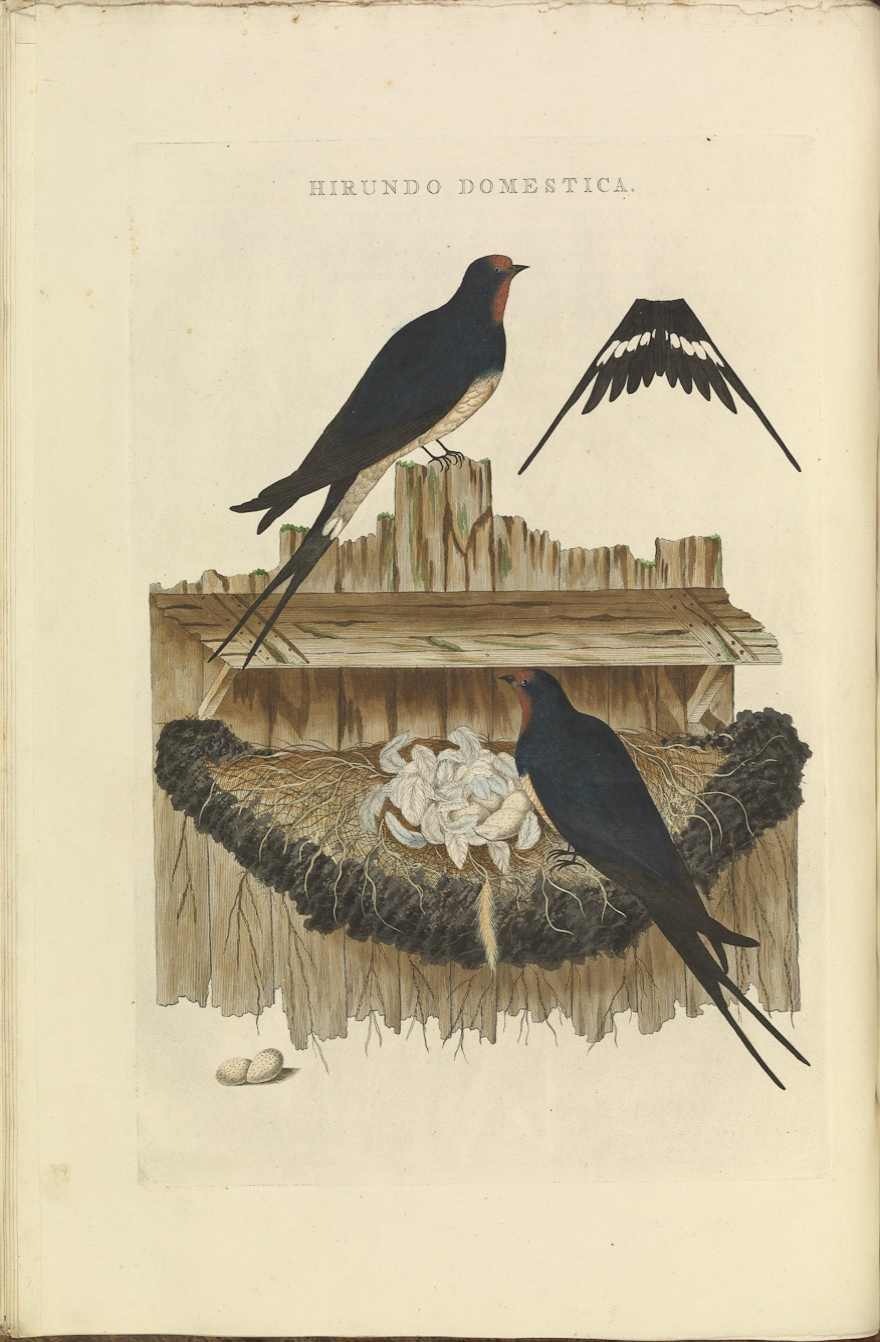 Plate 17 from the Nederlandsche vogelen by Nozeman and Sepp.